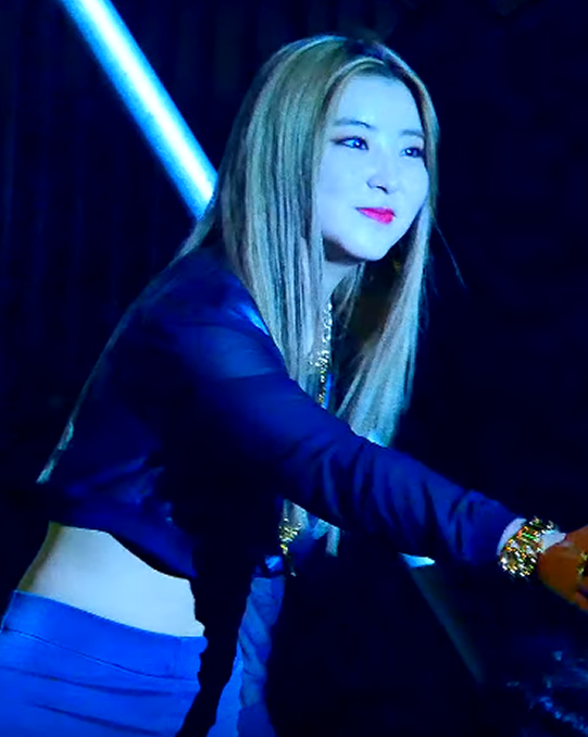 Kwon So-hyun performing Heart to Heart on May 21, 2015.